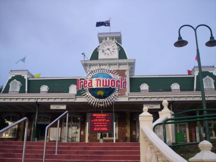 The entrance to Dreamworld in late 2005/2006. Shortly after this photo was taken, the entrance was modified to feature a ticket booth in the centre under the three-dimensional logo.